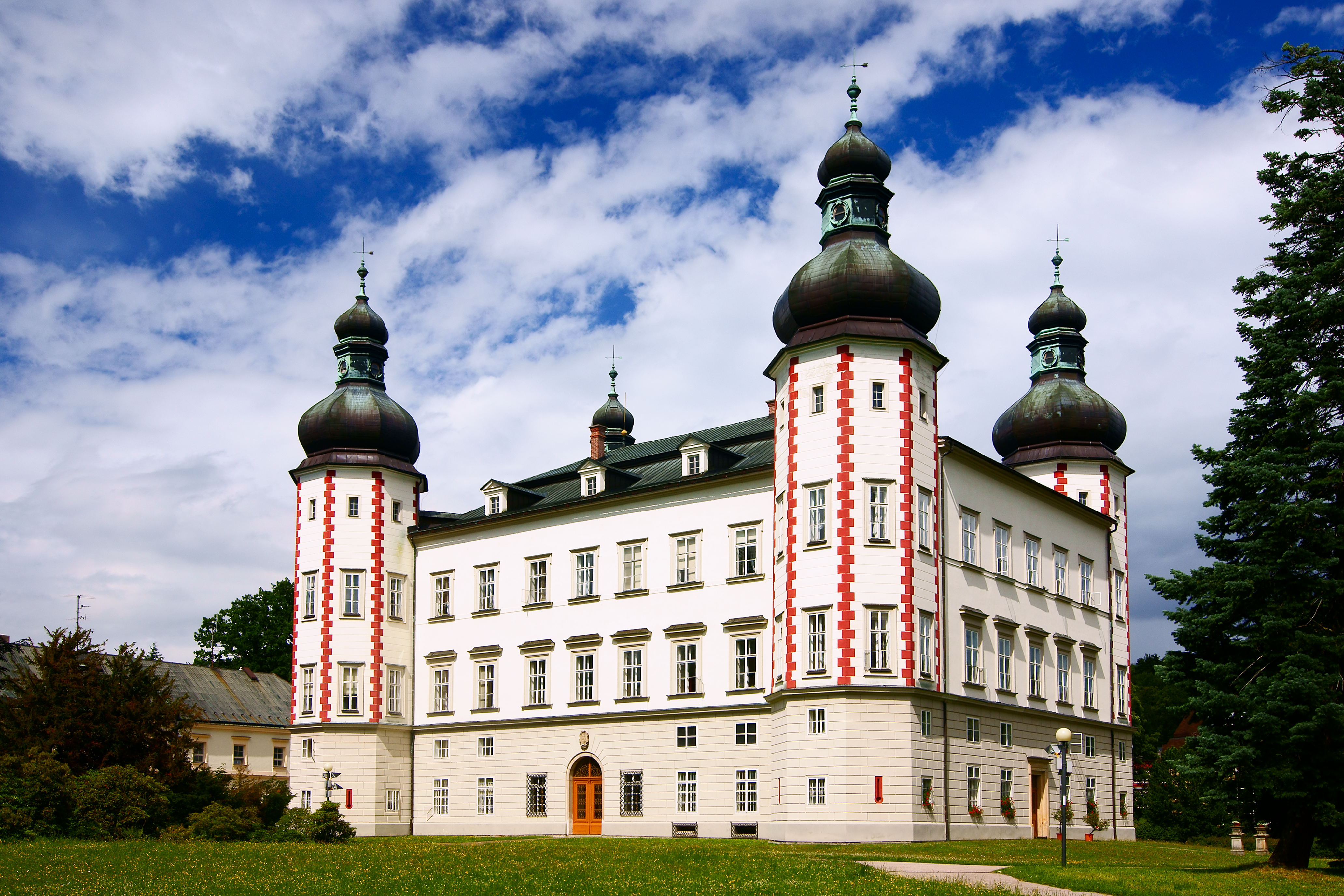 Vrchlabí (Czech Republic), castle.